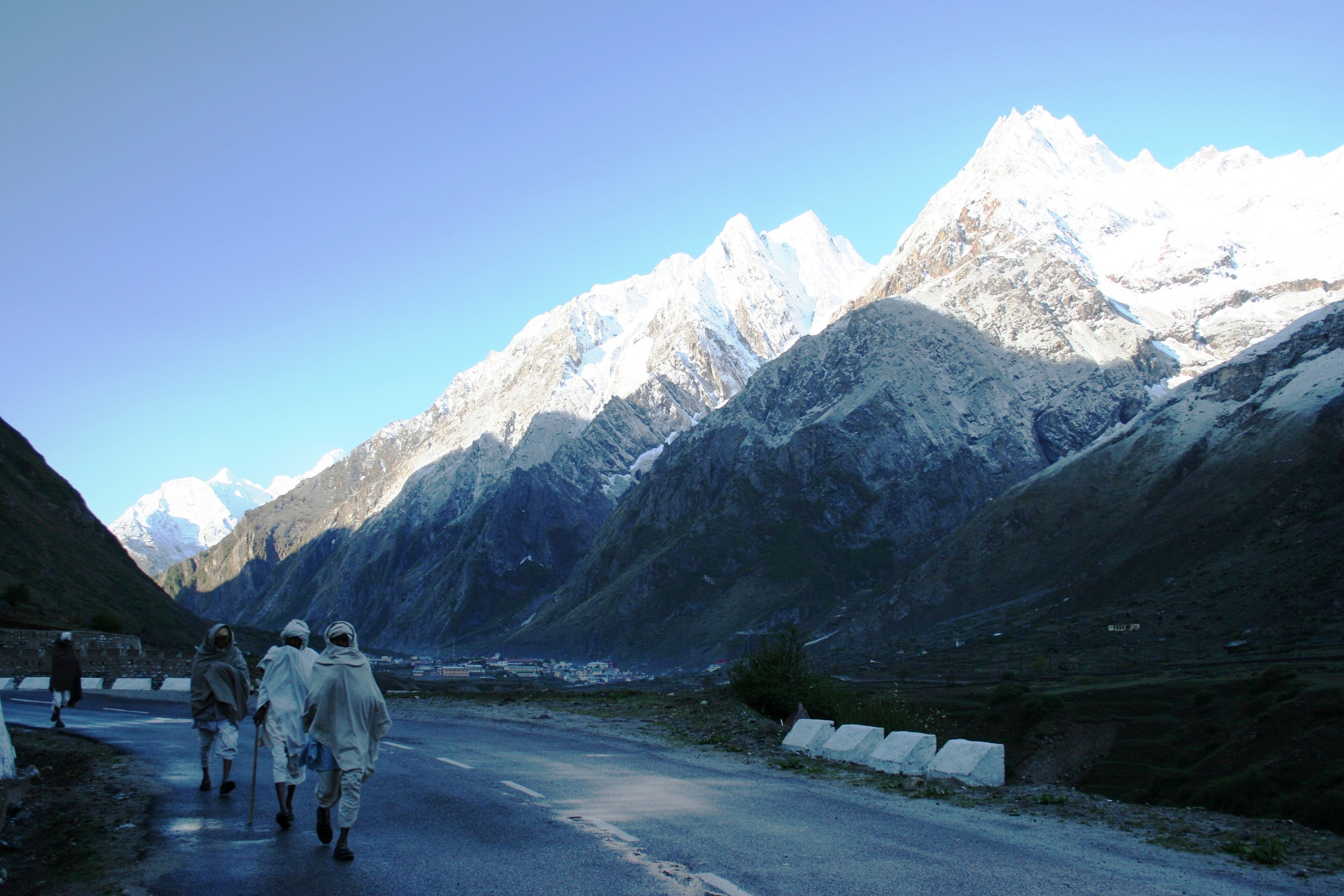 badrinath landscape